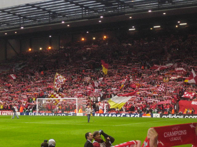 The Kop in full voice